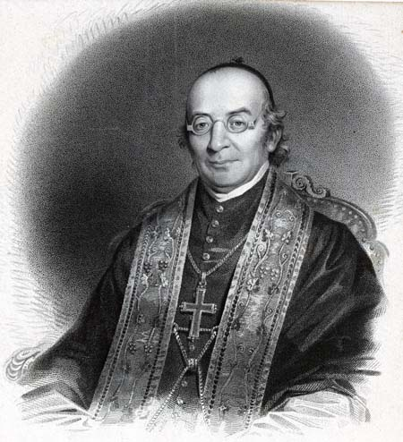 An etching of Archbishop Ambrose Maréchal.